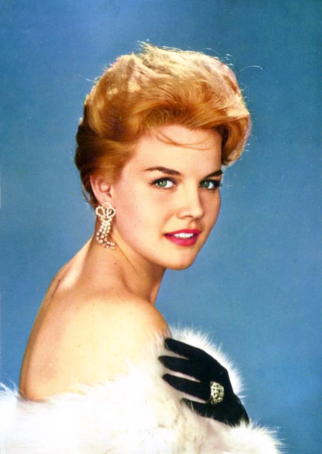 Colored photo of Carroll Baker